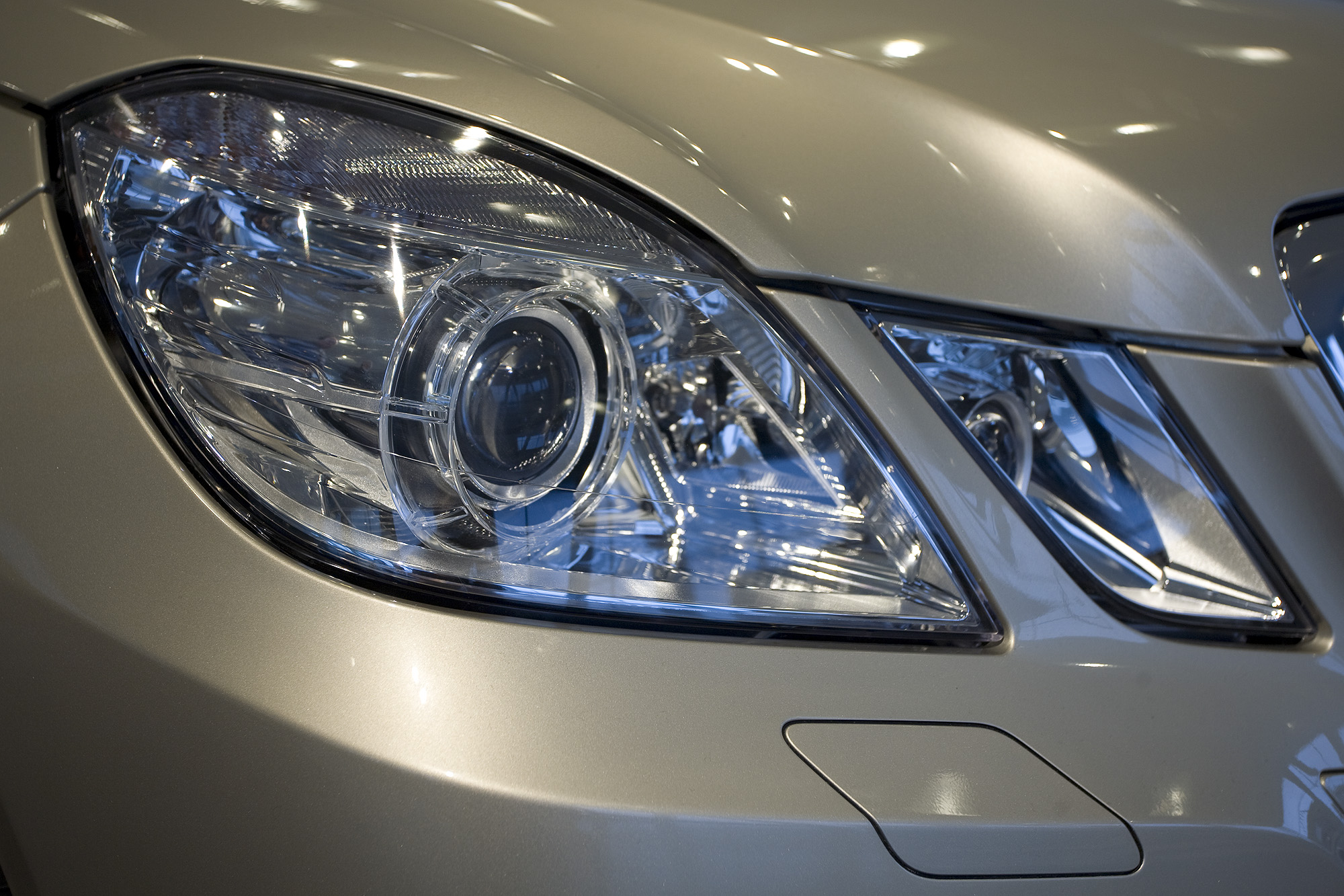 Front light of the new E-Class, W212.